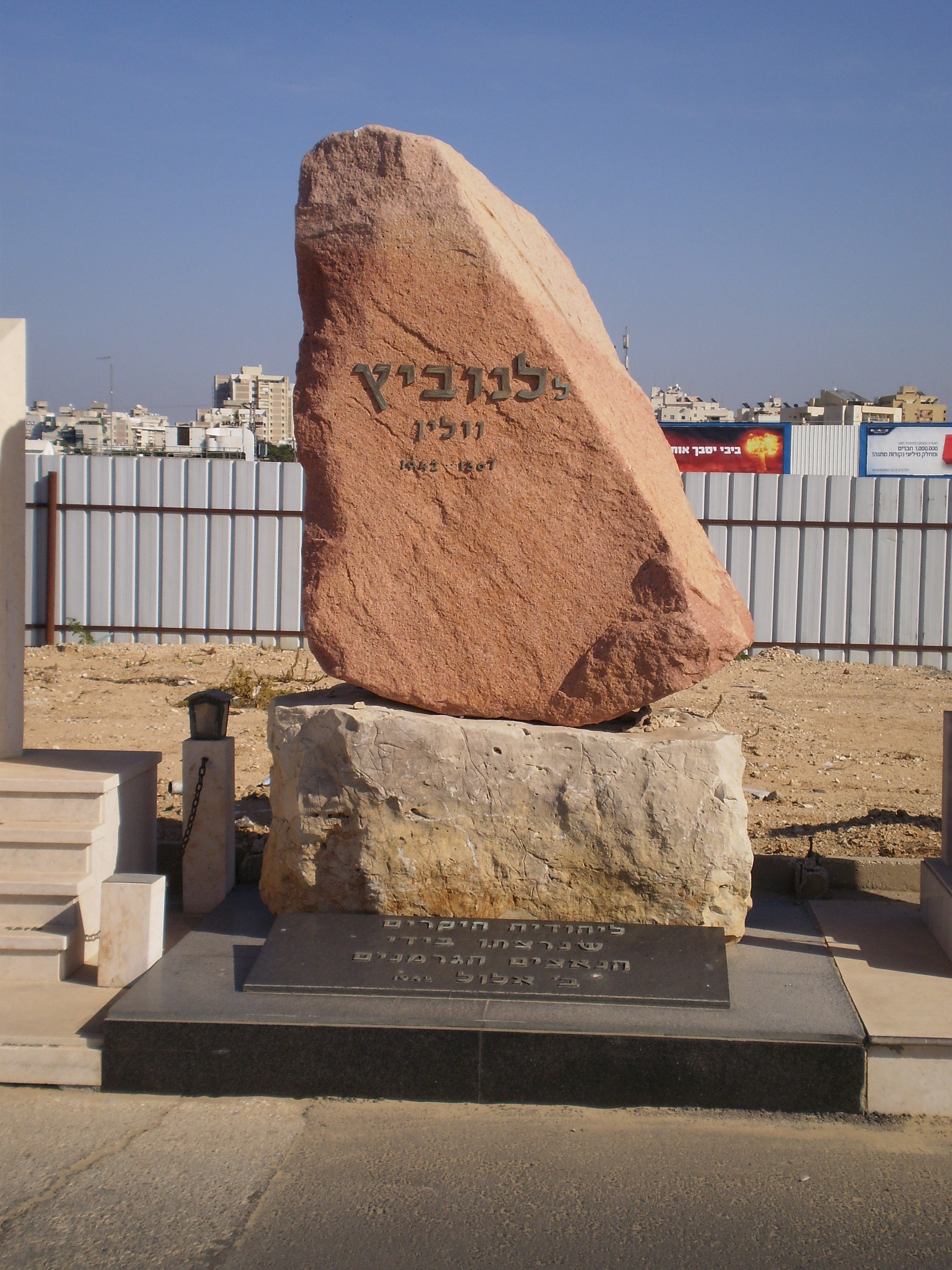 Łanowce Jewery Holocaust memorial at Holon Cemetery